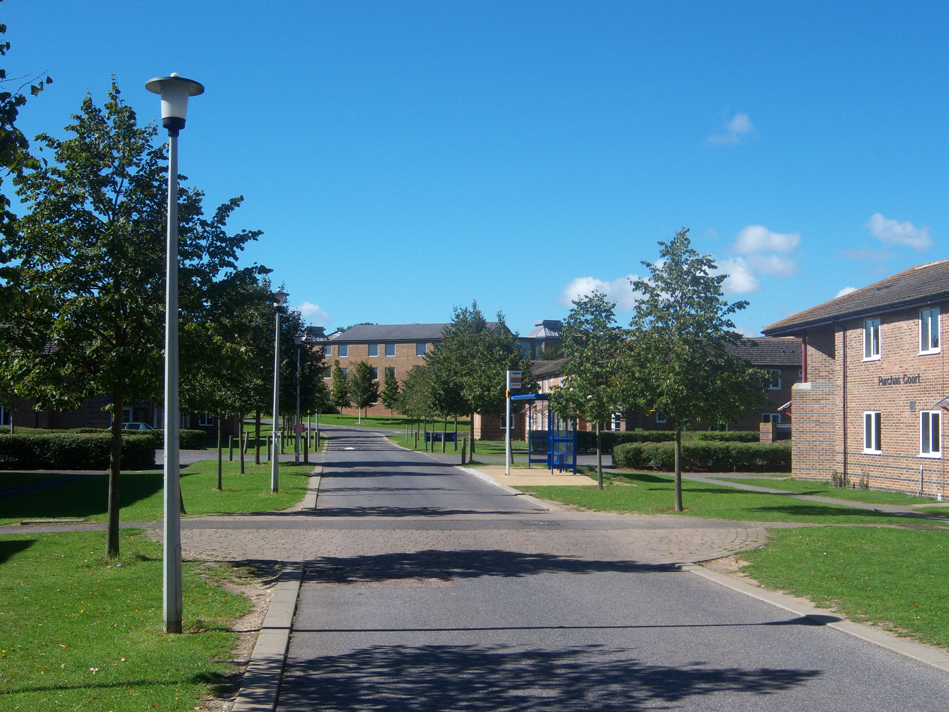 Parkwood Student Village, University of kent, Canterbury, UK.